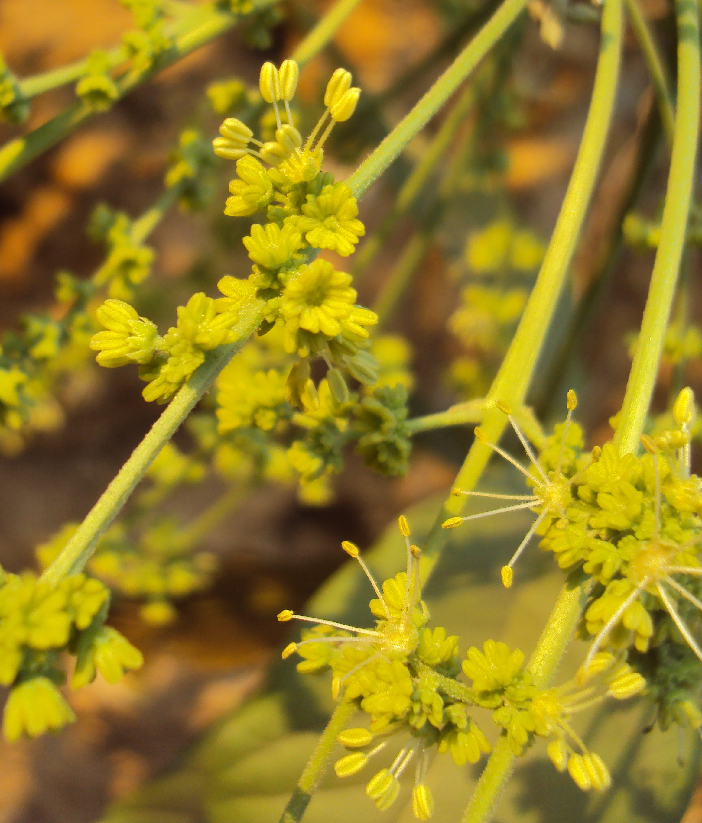 Schleichera oleosa